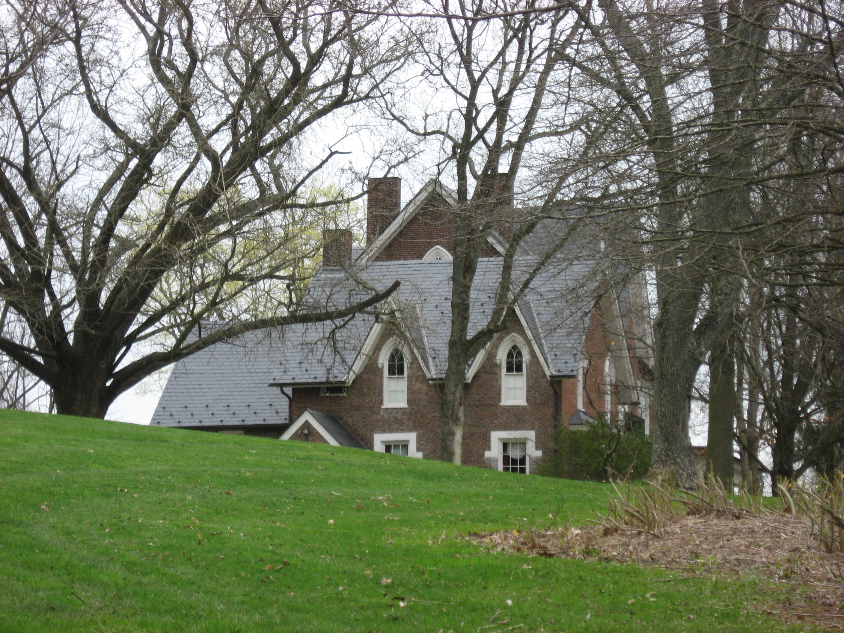 Front of Pendleton Heights, located off Campus Drive on the campus of Bethany College in Bethany, West Virginia, United States. Built in 1841, it is listed on the National Register of Historic Places, and it is part of a Register-listed historic district, the Bethany Historic District.